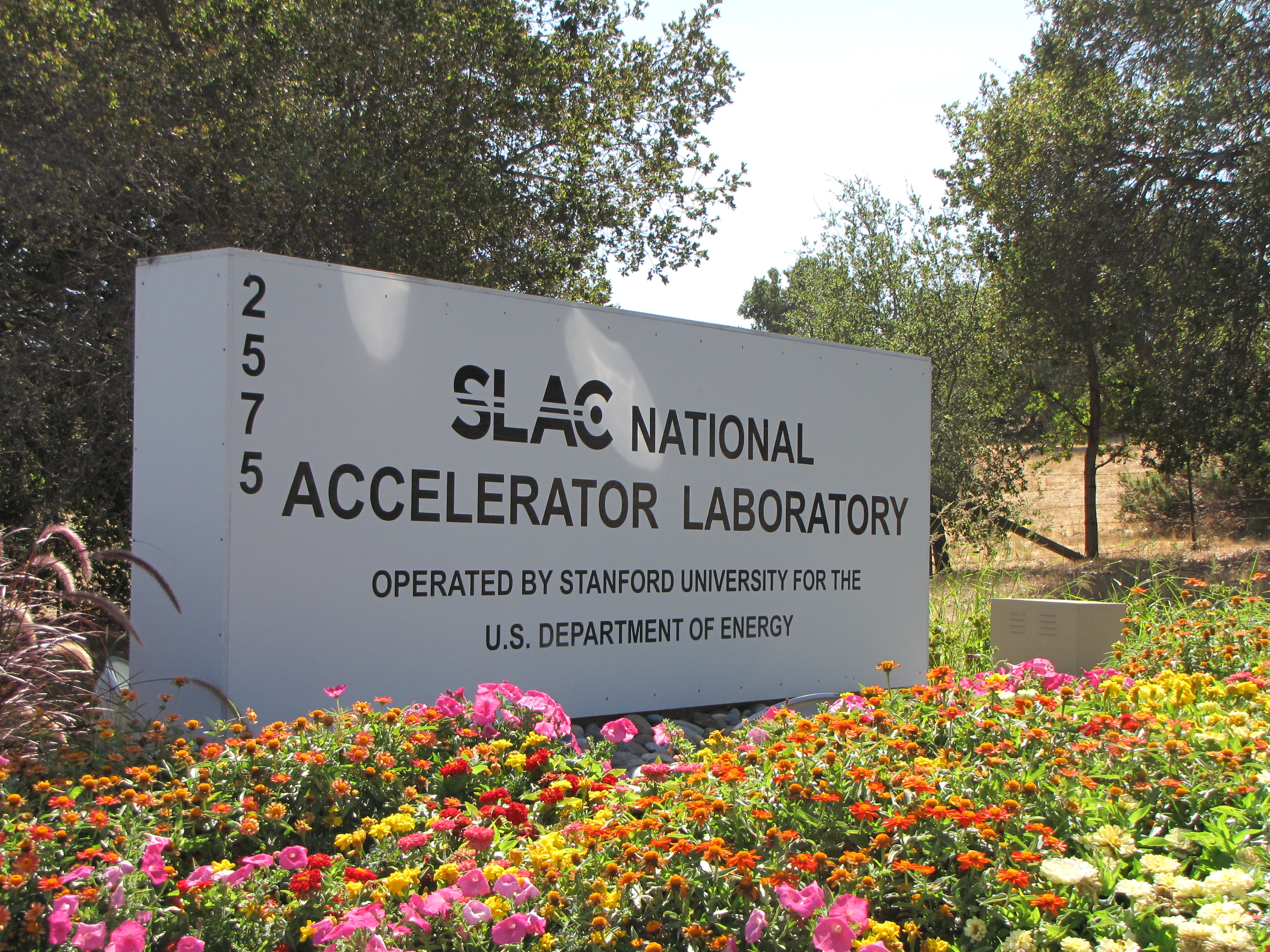 A picture of the SLAC entrance.